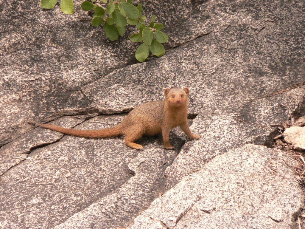 A Dwarf Mongoose in the Serengeti, Tanzania